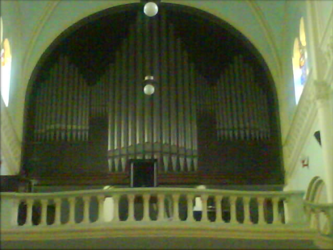 The organ of the La santa cruz Chapel in La Salle University